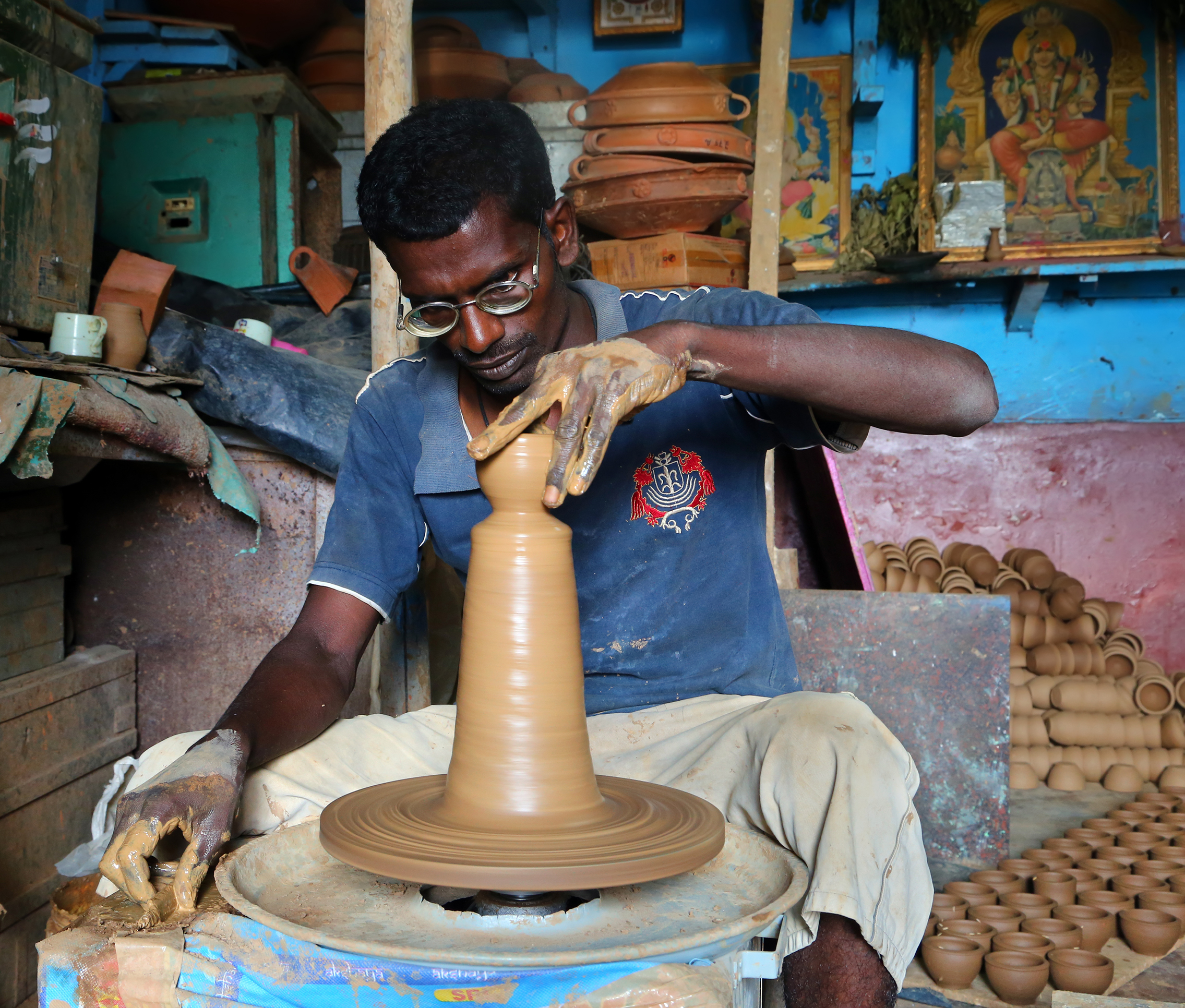 A Potter in Bangalore, India